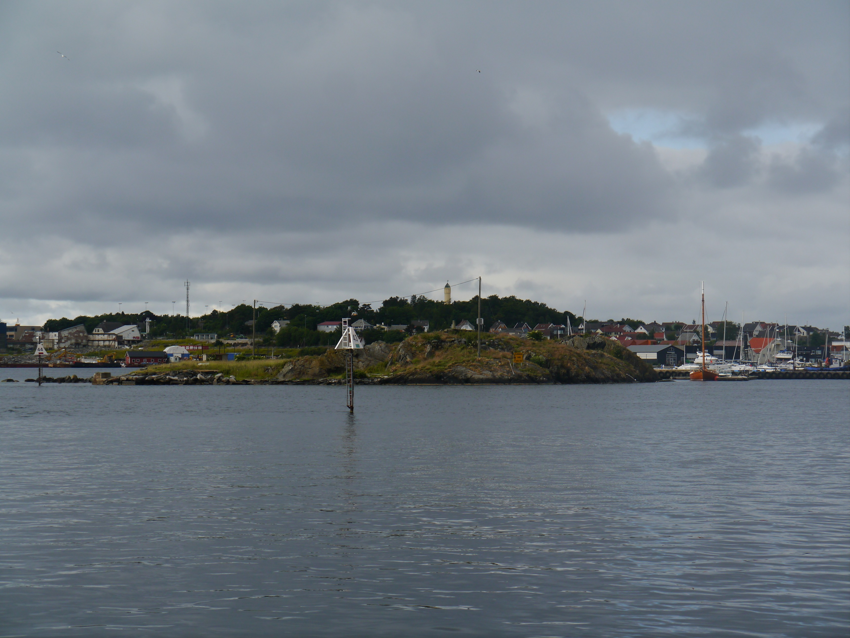 Skerry coast near Stavanger, Rogaland County, Southwestern Norway